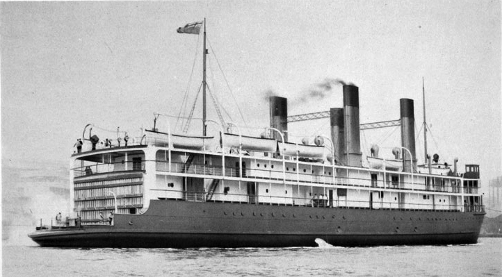 The Prince Edward Island - Ferry (1914)